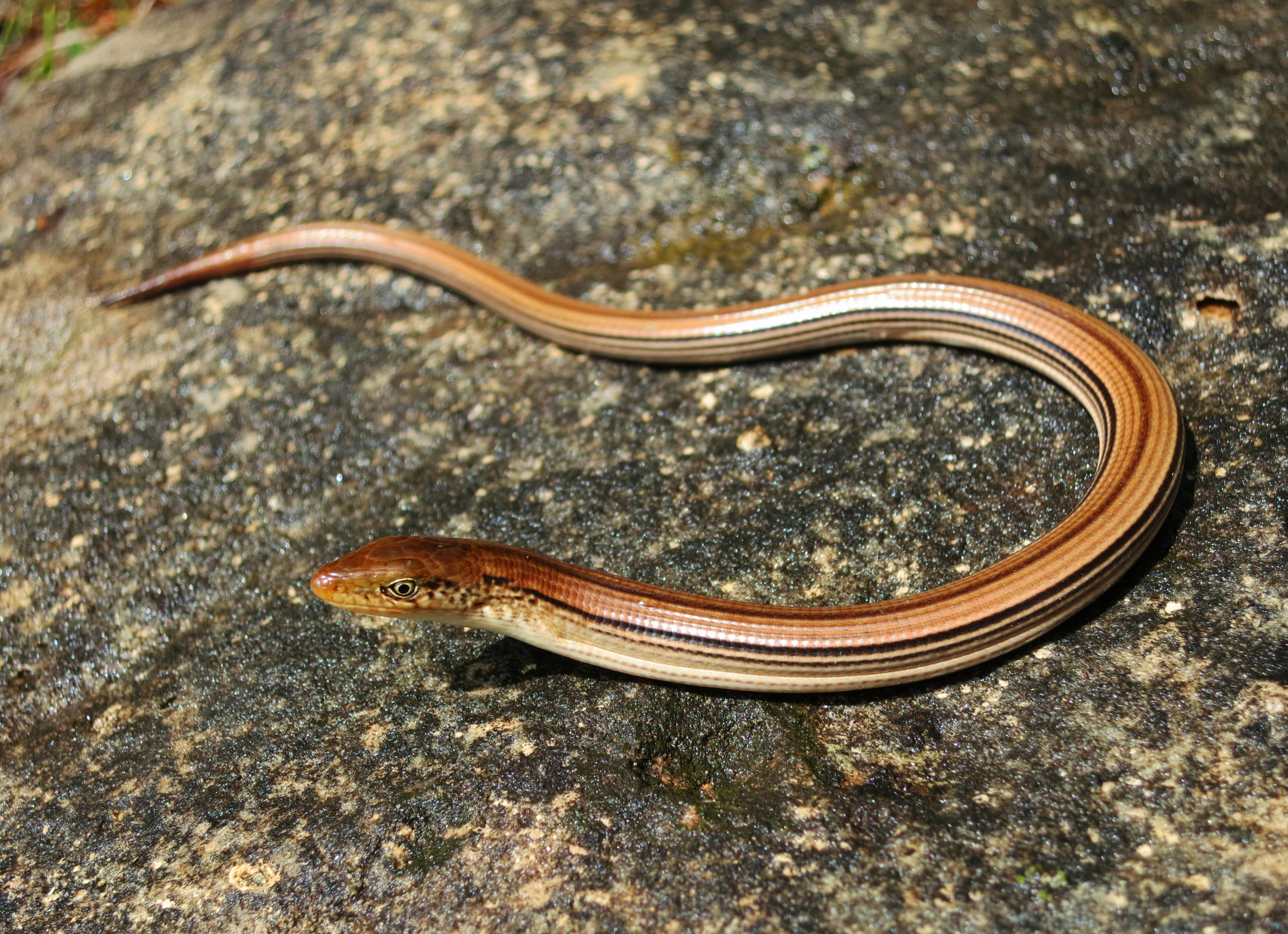 April, 2012 Jefferson County, Missouri